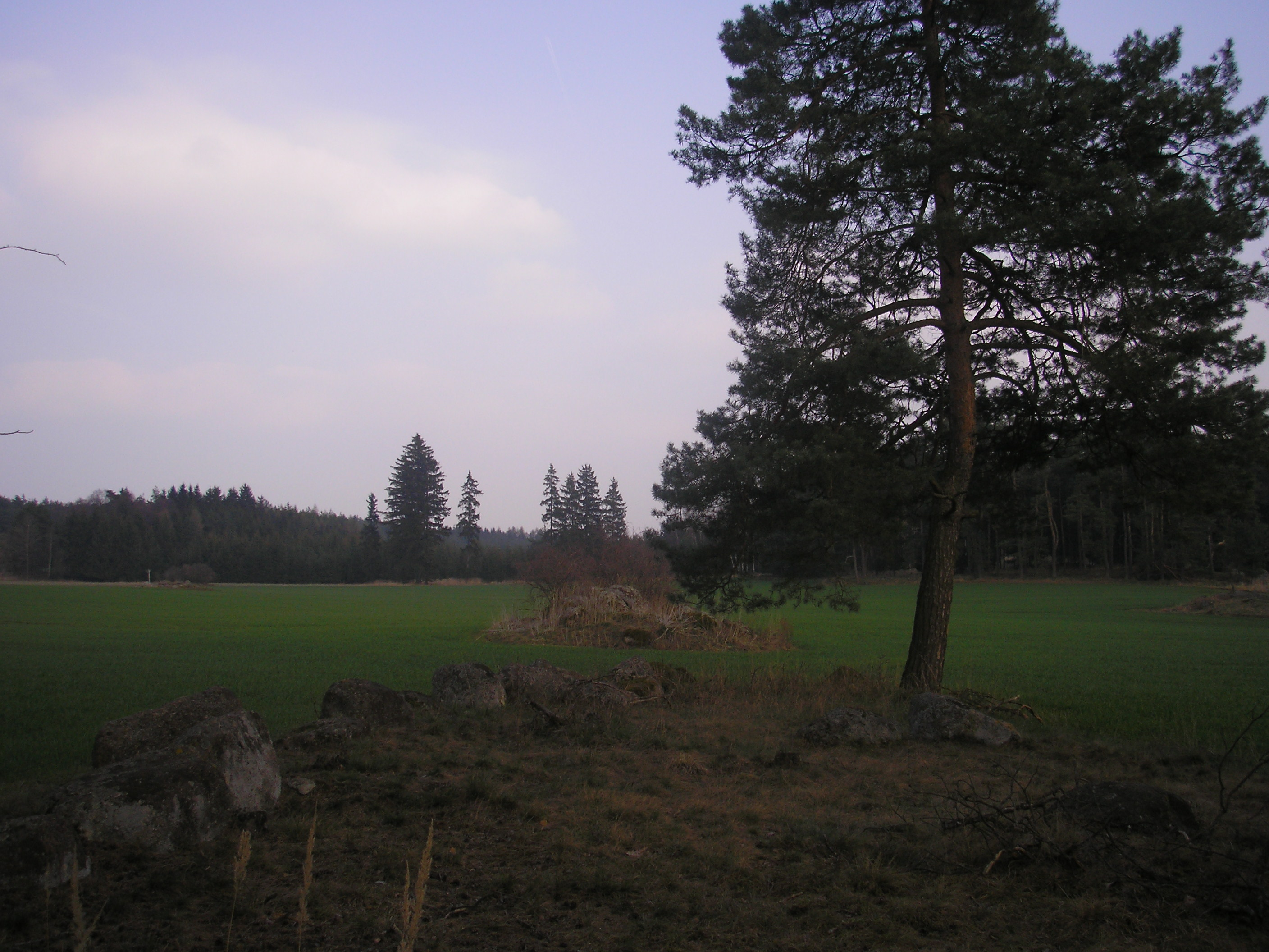 From "Přírodní park Třebíčsko"